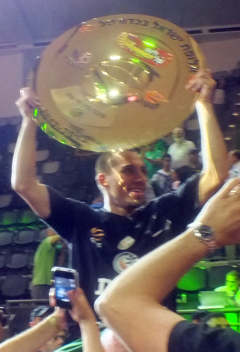 Raising the 2012/13 Championship Dish for the Greens, this gifted player will be missed in the current season in Haifa.